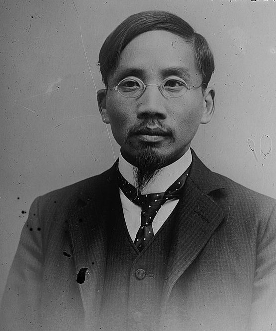 Bain News Service,, publisher. T. Sai Yuan-Bet [no date recorded on caption card] 1 negative : glass ; 5 x 7 in. or smaller. Notes: Title from unverified data provided by the Bain News Service on the negatives or caption cards. Forms part of: George Grantham Bain Collection (Library of Congress). Format: Glass negatives. Repository: Library of Congress, Prints and Photographs Division, Washington, D.C. 20540 USA, General information about the Bain Collection is available at Persistent URL: Call Number: LC-B2- 2566-11 This is a retouched picture, which means that it has been digitally altered from its original version. Modifications: Crop to show subject of picture. The original can be viewed here: Cai Yuanpei-loc-nodate.jpg. Modifications made by Nesnad. Bân-lâm-gú: 蔡元培。 Tshài Guân-puê.